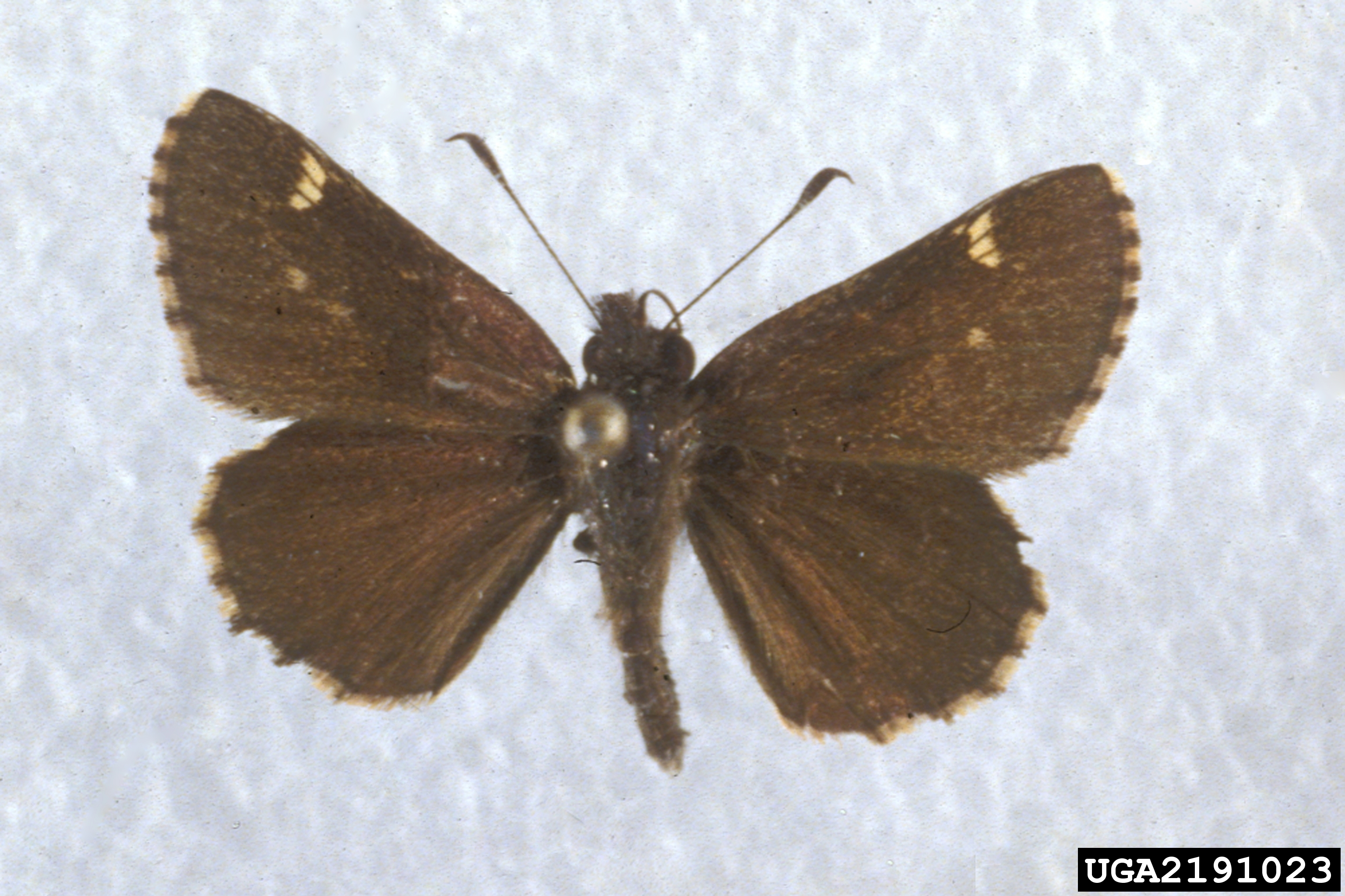 Amblyscirtes vialis. Tishomingo County, Mt. Woodall, Mississippi, United States.